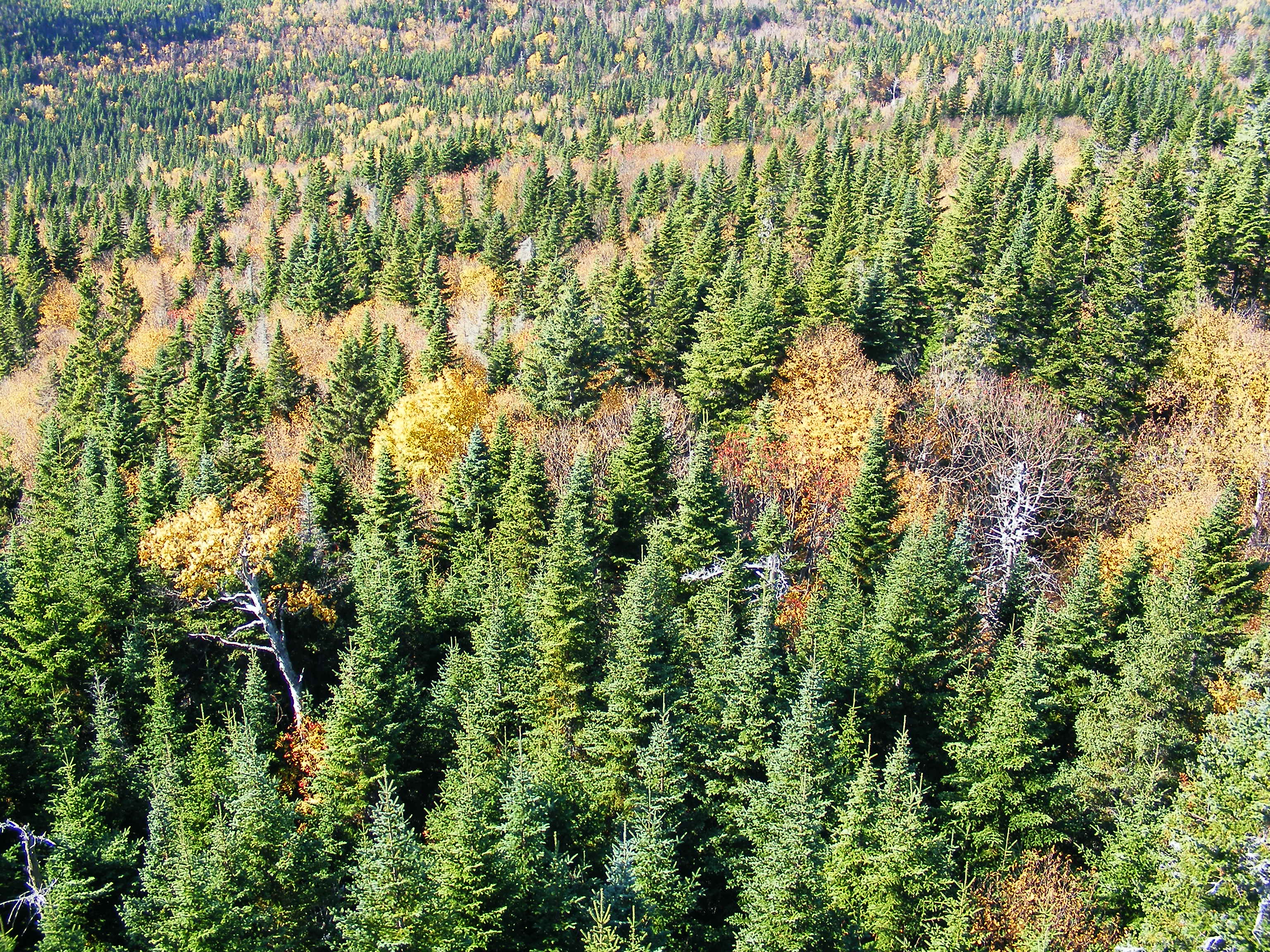 Taiga forest dominated by Picea glauca. Gaspé, Québec, canada.